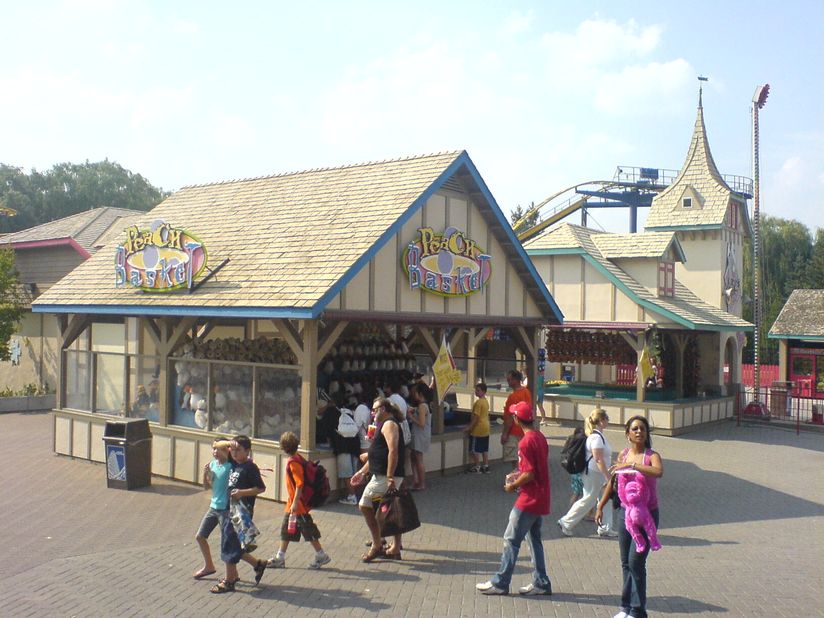 Peach Basket, High Striker and the former location of Ball Toss in the Alpen Games Courtyard